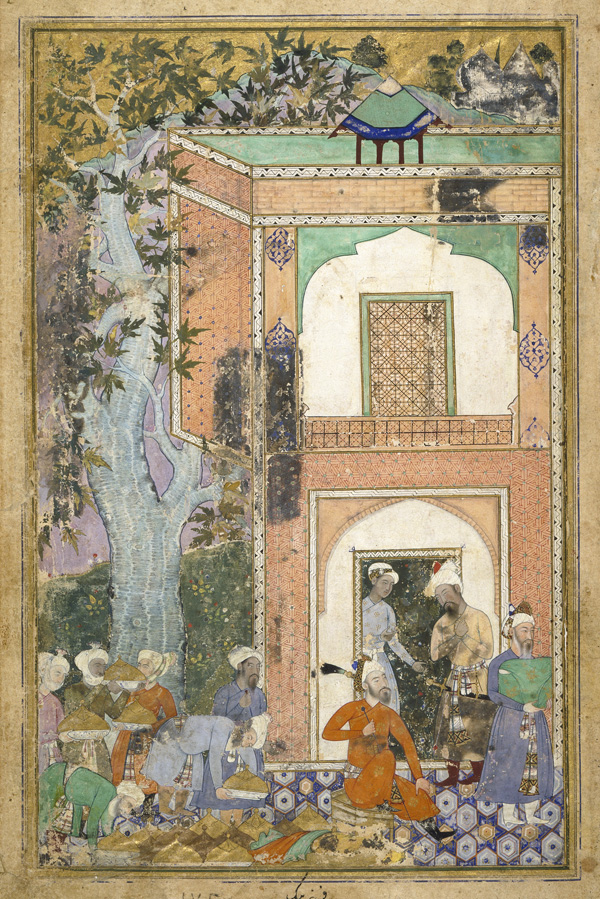 The "Memoirs of Babur" or Baburnama are the work of the great-great-great-grandson of Timur (Tamerlane), Zahiruddin Muhammad Babur (1483-1530). The Baburnama tells the tale of the prince's struggle first to assert and defend his claim to the throne of Samarkand and the region of the Fergana Valley. After being driven out of Samarkand in 1501 by the Uzbek Shaibanids, he ultimately sought greener pastures, first in Kabul and then in northern India, where his descendants were the Moghul (Mughal) dynasty ruling in Delhi until 1858. The miniatures are from an illustrated copy of the Baburnama prepared for the author's grandson, the Mughal Emperor Akbar. It is worth remembering that the miniatures reflect the culture of the court at Delhi; hence, for example, the architecture of Central Asian cities resembles the architecture of Mughal India. Nonetheless, these illustrations are important as evidence of the tradition of exquisite miniature painting which developed at the court of Timur and his successors. Timurid miniatures are among the greatest artistic achievements of the Islamic world in the fifteenth and sixteenth centuries. Illustrations of Mughals from the Baburnama